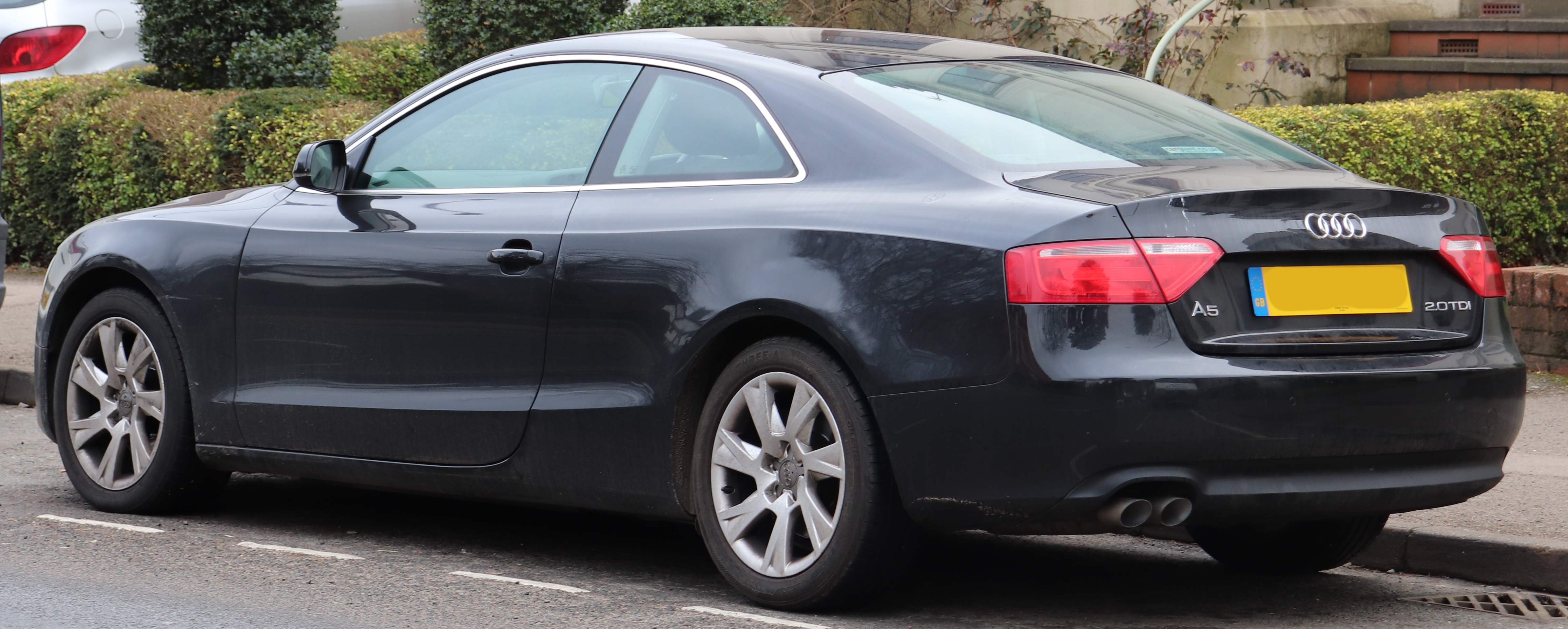 2010 Audi A5 SE TDi 2.0 Rear Taken in Leamington Spa